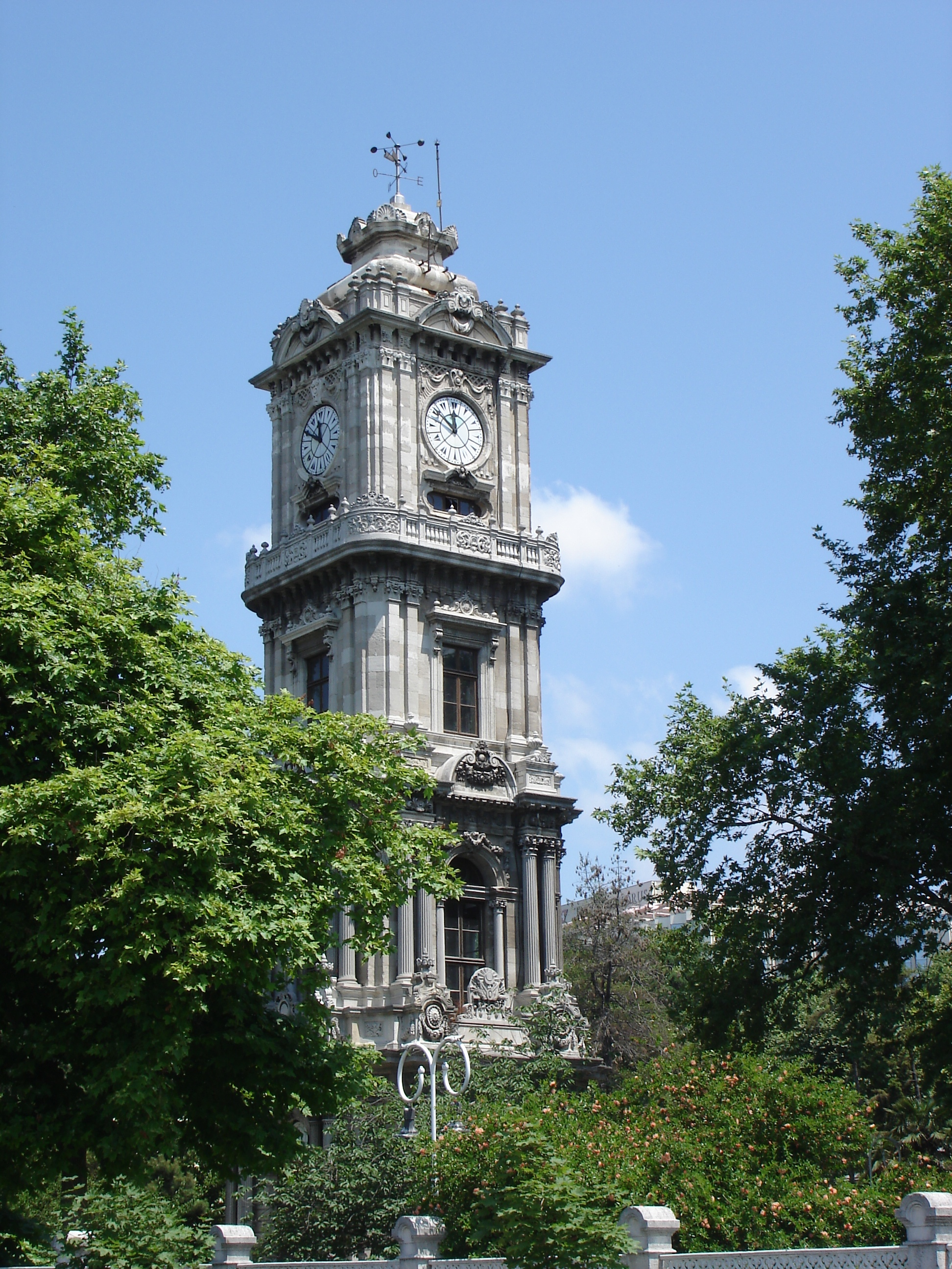 Dolmabahçe Palace clock tower at the gate